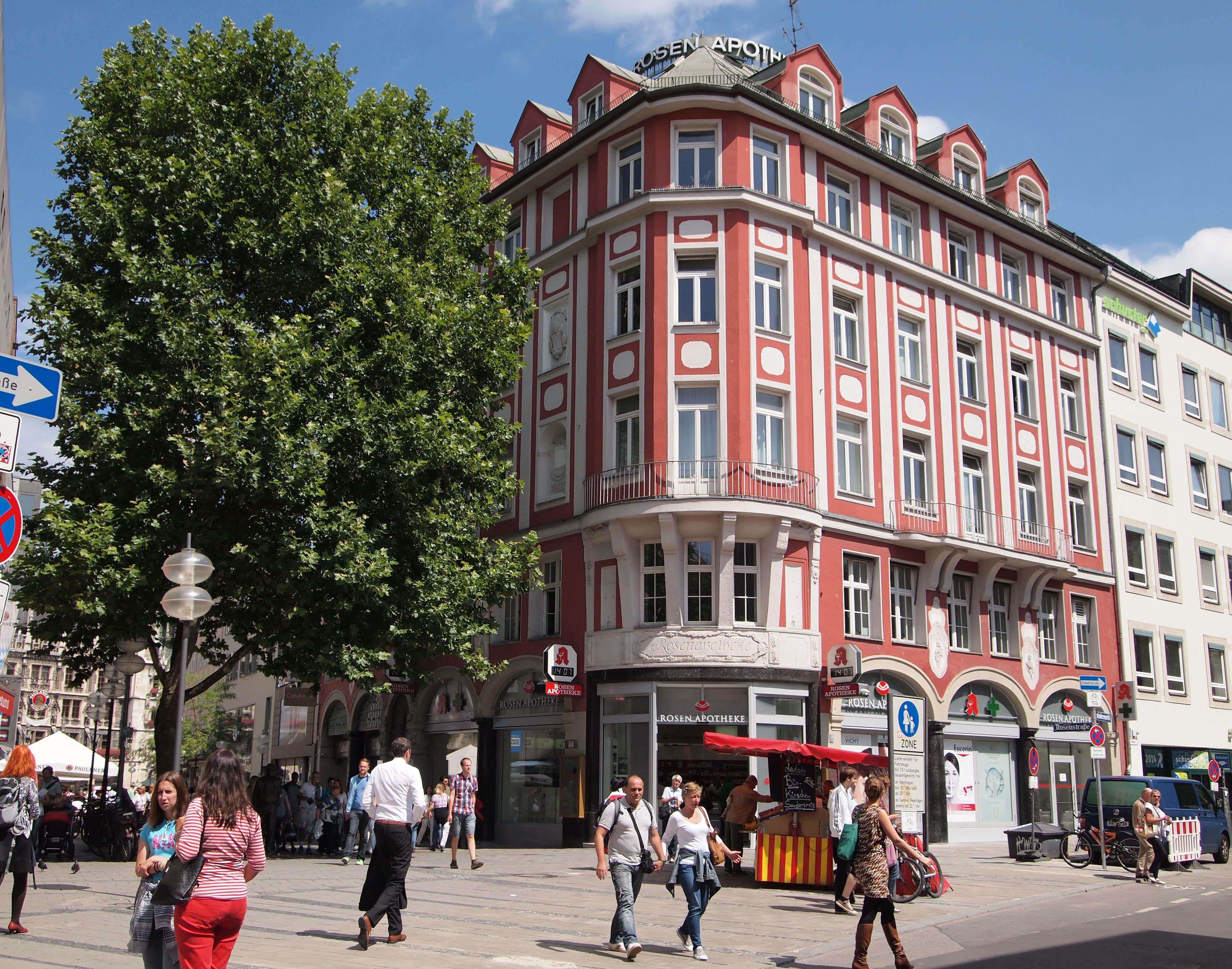 Rosen Apotheke in Munich.This photograph was taken with an Olympus E-PL1